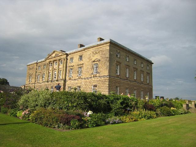 Packington Hall. The "new" hall was built in 1693 in the Italian Renaissance style and replaced 1055253. In 1772 the house was much extended and improved. The exterior was re-clad in the Palladian style by Matthew Brettingham and the interior redesigned by the Italian architect Joseph Bonomi. At one time the hall was the home of Jane Lane, who helped Charles II to escape from England disguised as her servant. It is now the home of the Earls of Aylesford and the present incumbent, the 12th Earl, is now styled Lord Guernsey.